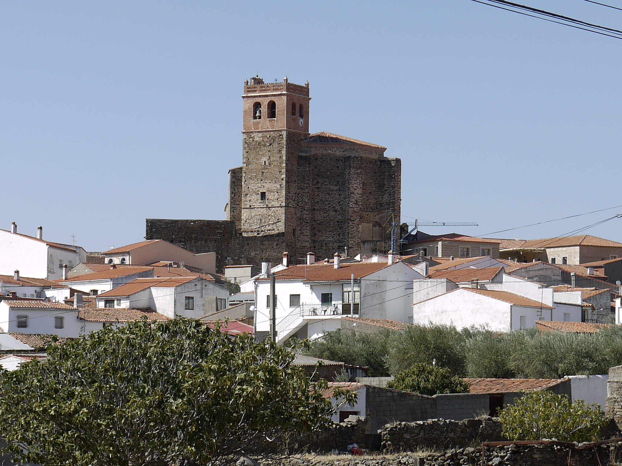 Iglesia Parroquial Ntra Sra de la Asunción, Jaraicejo, Prov. de Cáceres, Spain.